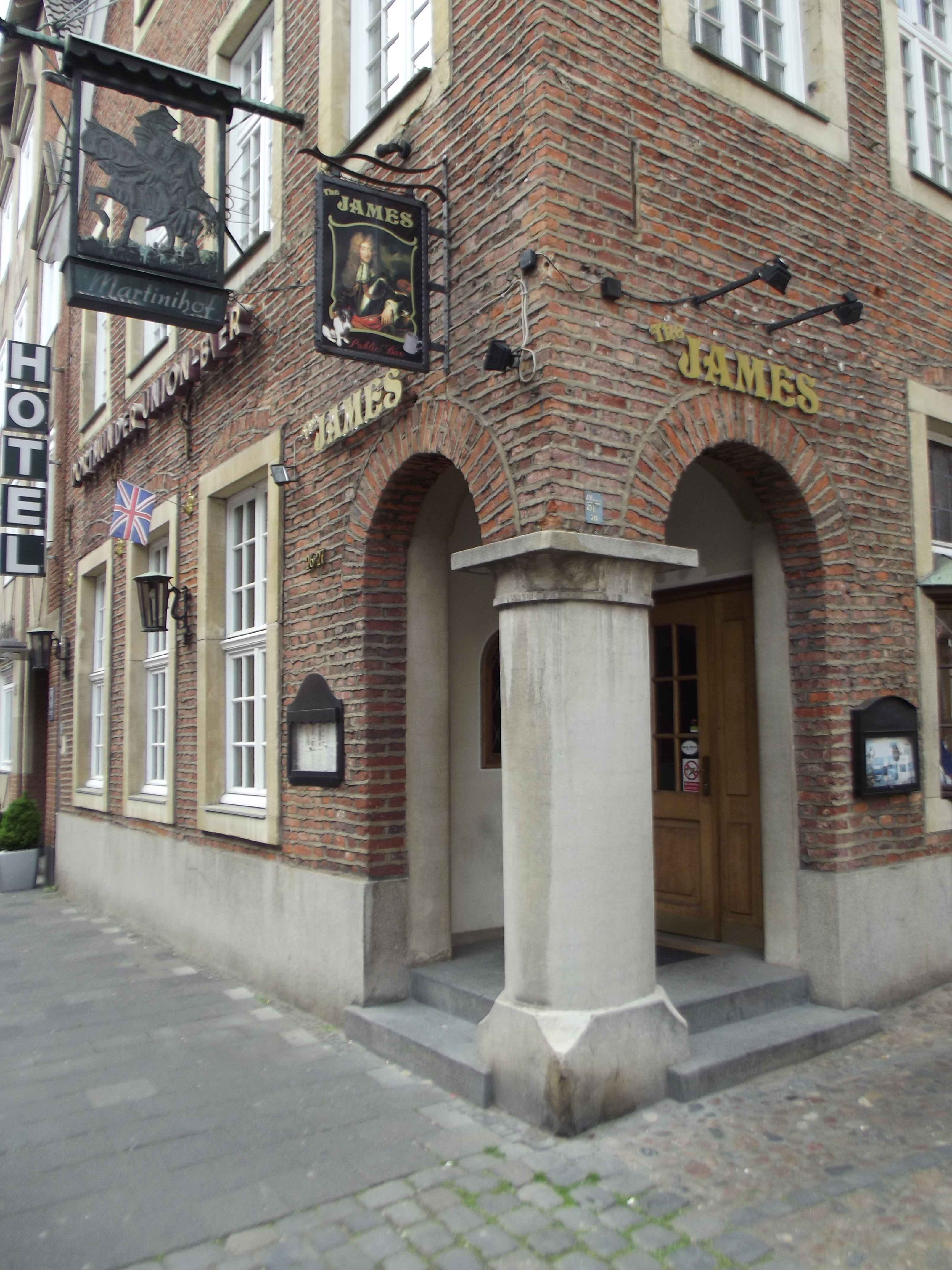 An anglophile pub in Münster, renamed after an English king (although a sign sporting the original German name is still there too) and showing the British flag